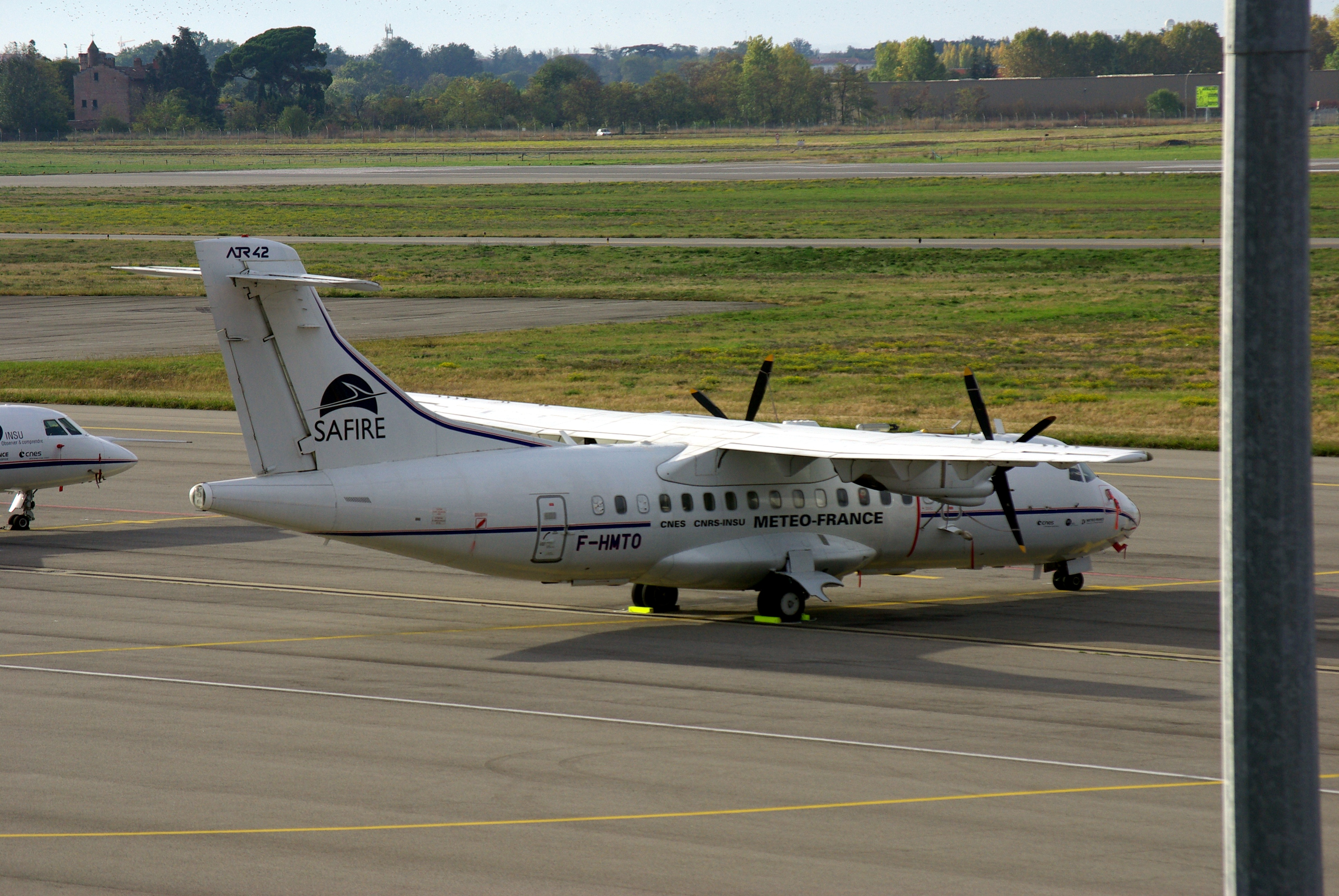 The ATR 42 of the french research institute SAFIRE at the International Conference on Airborne Research for the Environment (ICARE 2010) in Toulouse.